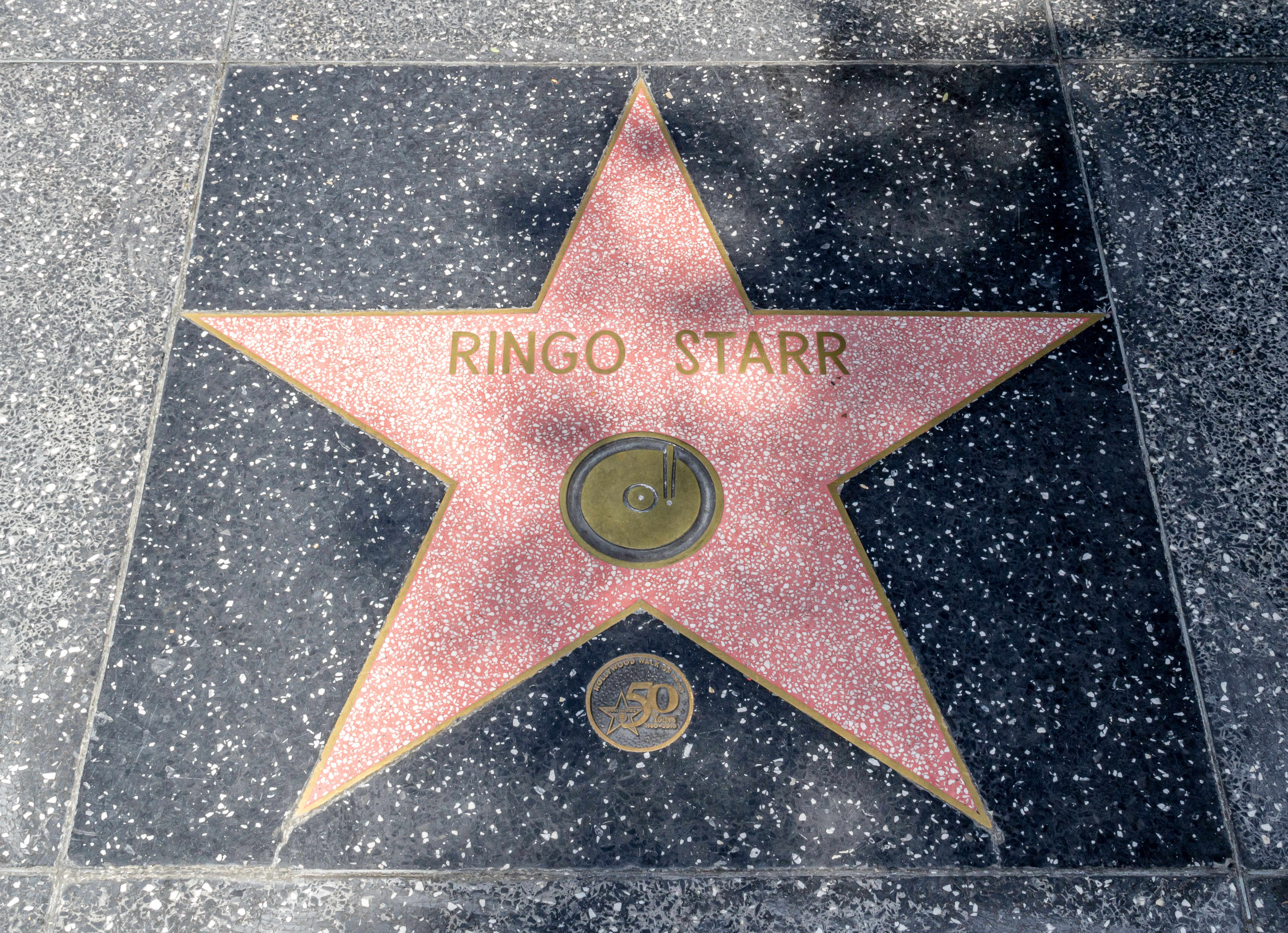 Star “Ringo Starr” at the Hollywood Boulevard in Los Angeles, California, USA